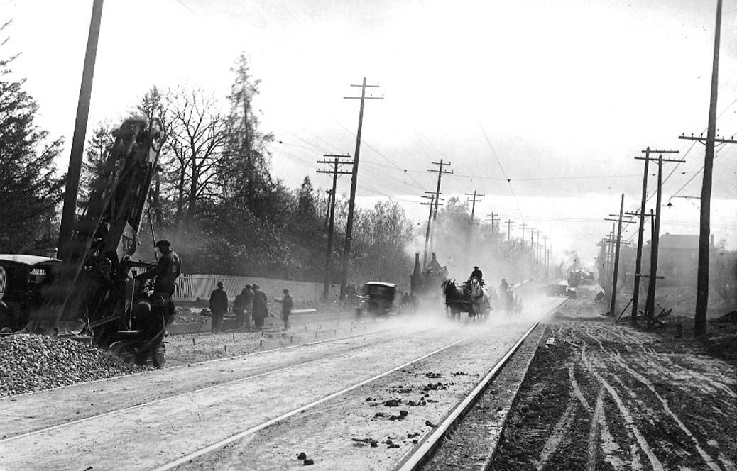 Construction of streetcar tracks on Yonge Street, at Lawrence Avenue, looking north (Toronto, Canada}